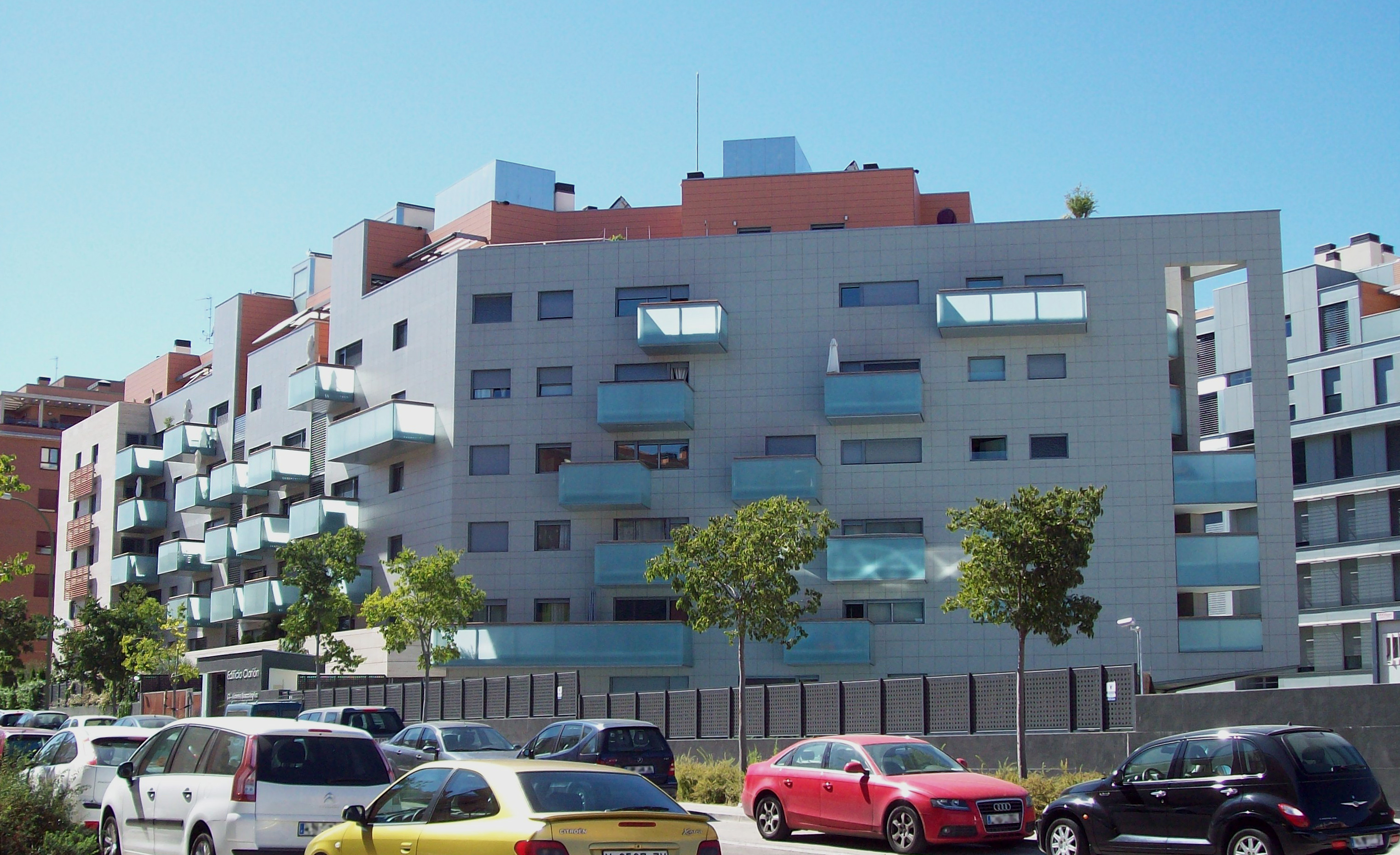 Housing building Clarión in Madrid (Spain).